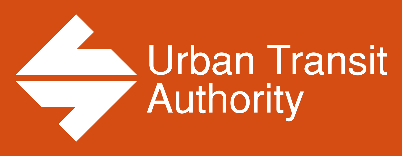 The Emblem Urban Transity Authority of British Columbia, a governmental organization for the operation of transit province wide. This predated BC Transit and followed BC Hydro Transit (and BCE). This logo was used for a short time once BC Transit was created.